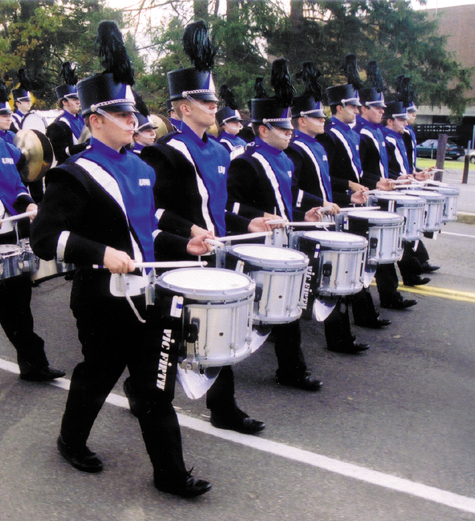 This photograph was taken by UNHWMB Staff Photographer/Videographer Erik Evensen (UNH '01) during the fall performance season of the 2002-2003 UNH Wildcat Marching Band.